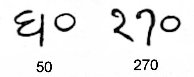 Gwalior zeros